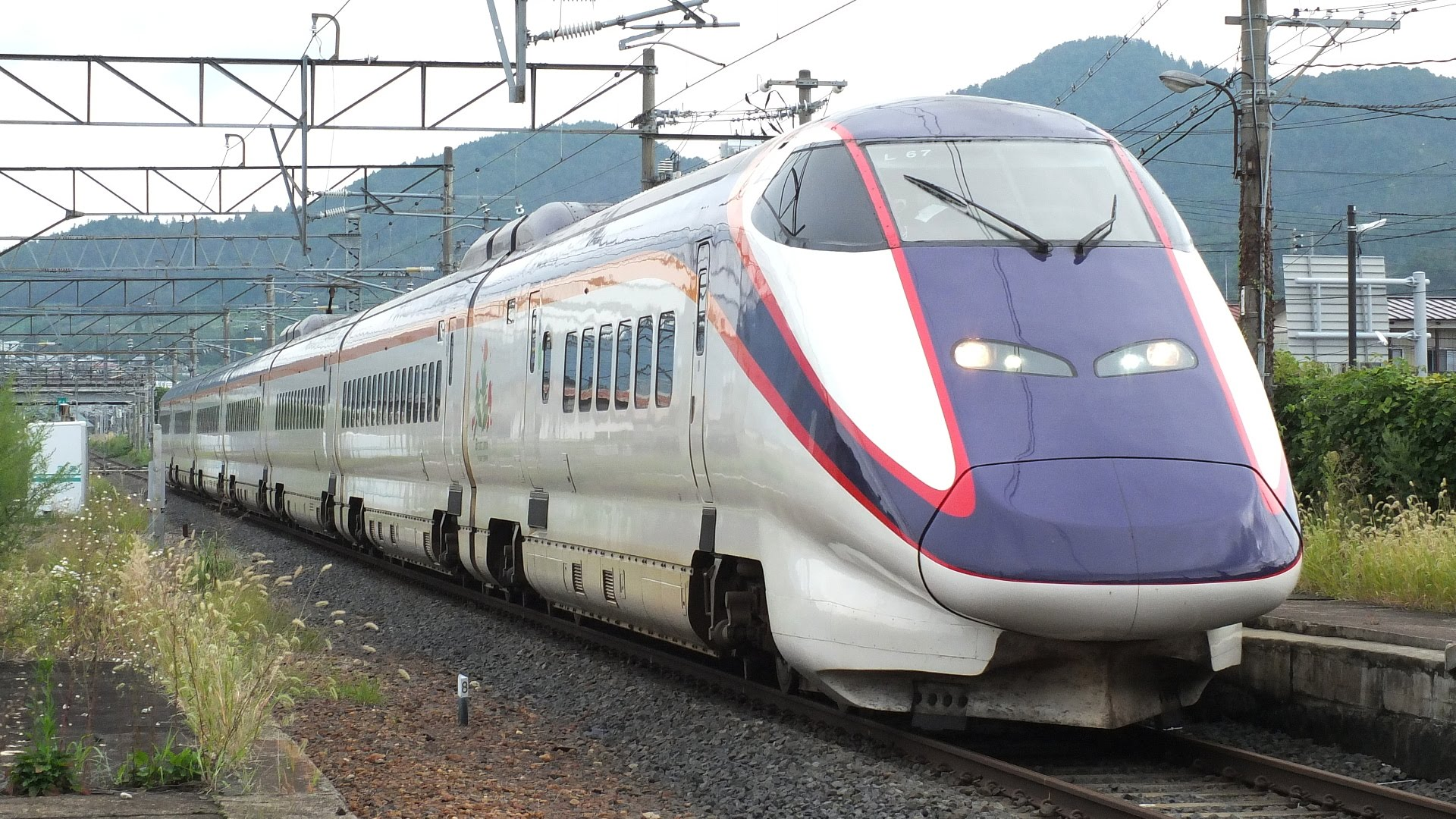 Reliveried JR East E3-2000 series shinkansen set L67 approaching Akayu Station on the Tsubasa 128 Yamagata Shinkansen service